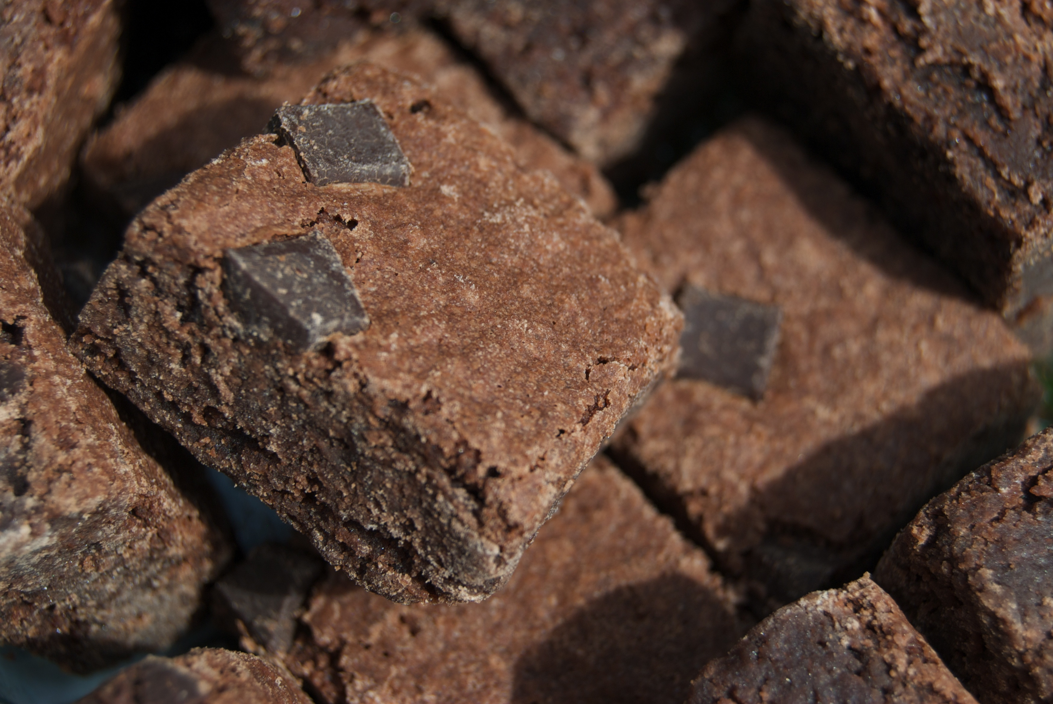 Brownies with chocolate chunks.